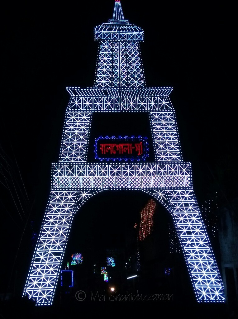 Diwali Lighting in Lalgola ,Front Of Duckbunglow